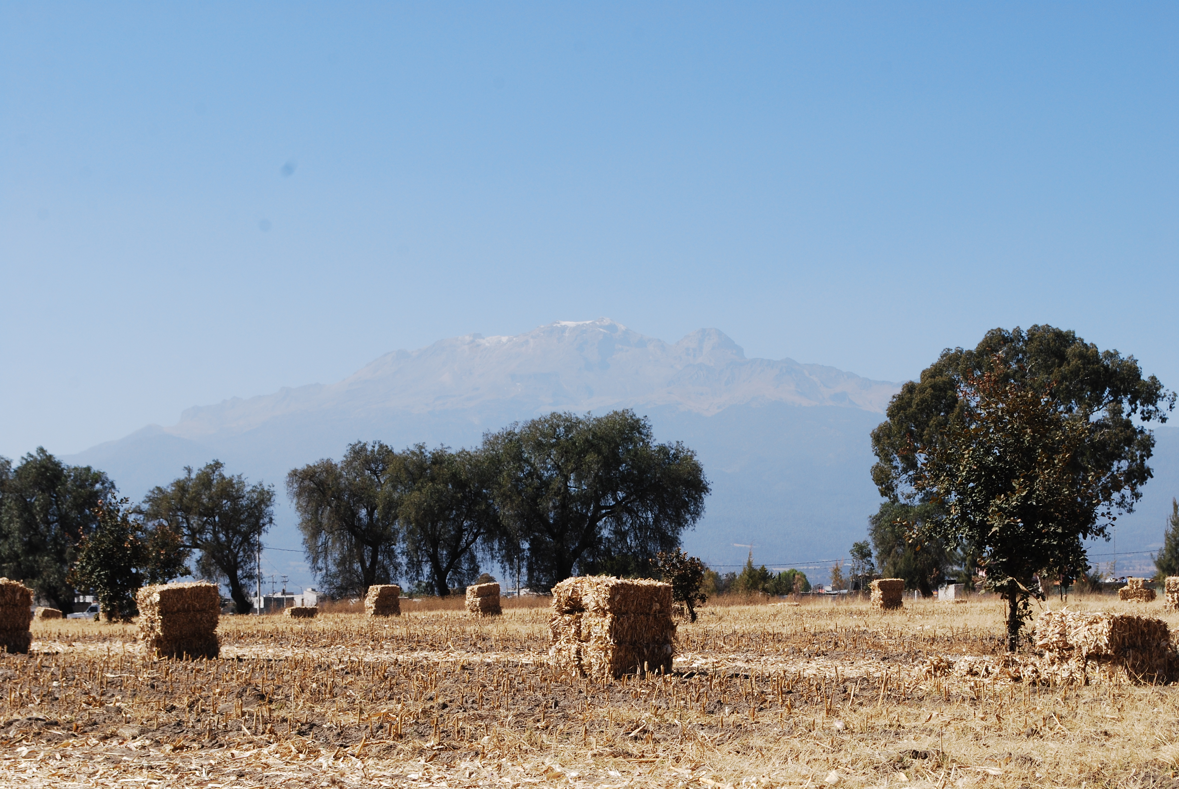 View of Iztaccihuatl from the Chautla Hacienda in San Salvador el Verde, Puebla, Mexico